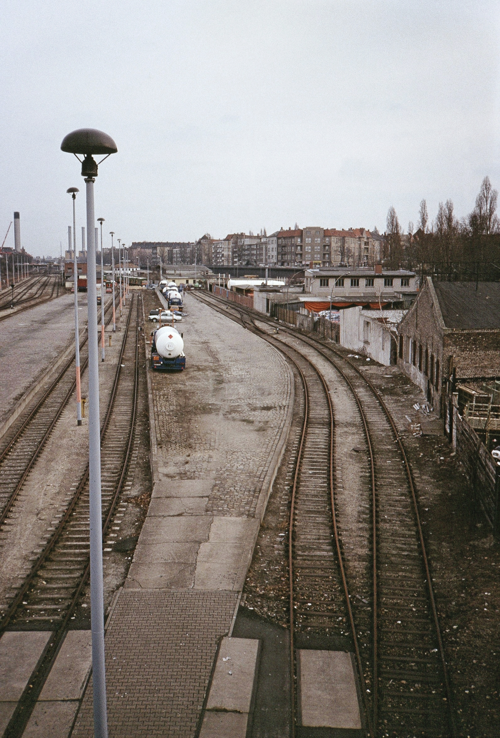 Berlin Halensee train station